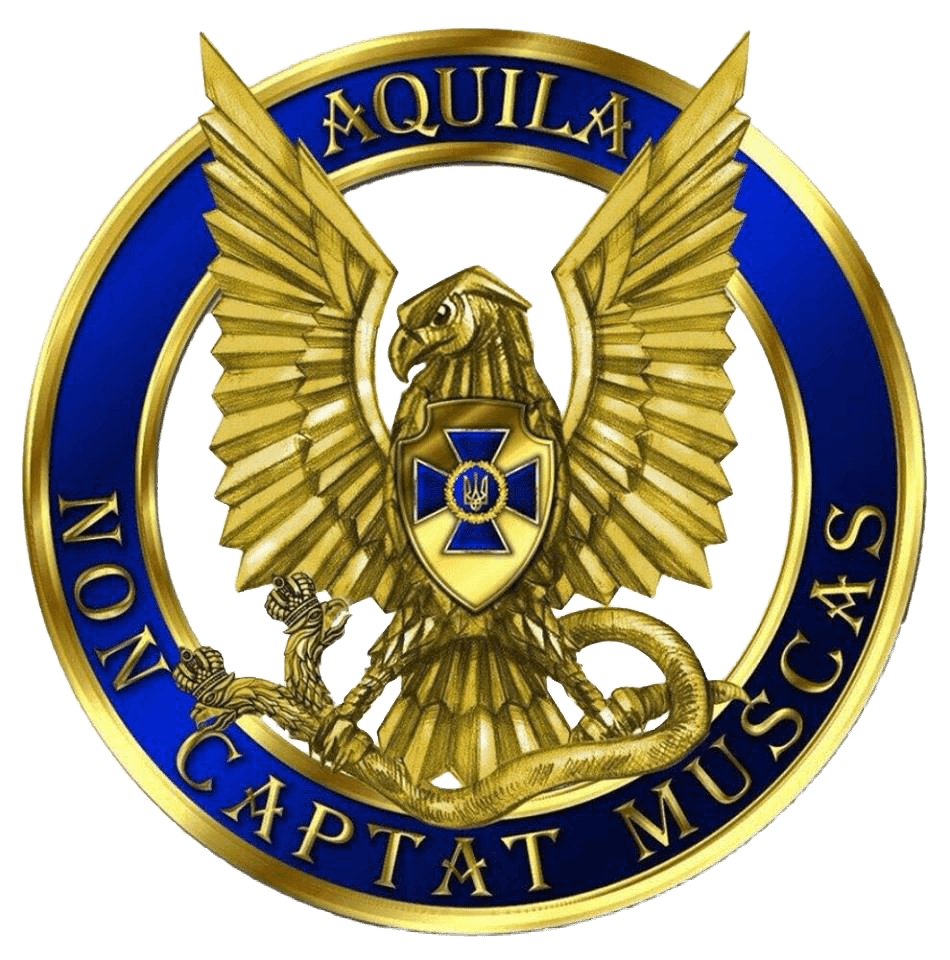 Counter intelligence department of SSU Emblem